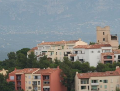 Mougins le Haut site in Mougins